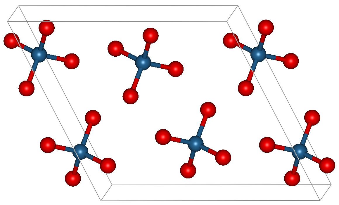 Krebs B., Hasse K.D. (1976). "Refinements of the Crystal Structures of KTcO4, KReO4 and OsO4. The Bond Lengths in Tetrahedral Oxo-Anions and Oxides of d0 Transition Metals". Acta Crystallographica B 32: 1334–1337.